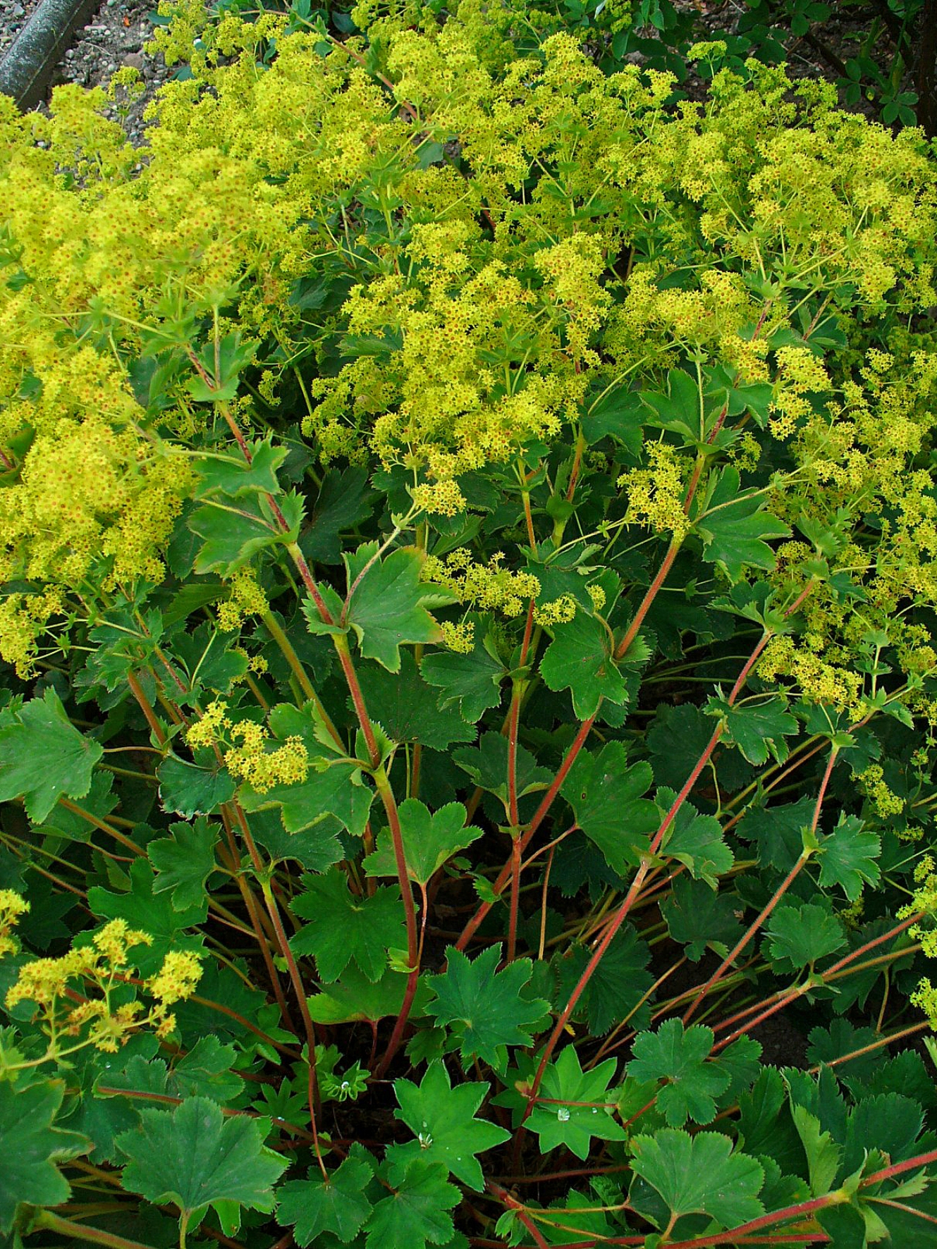 Yellow-Green Lady's Mantle, habitus. Botanical Garden KIT, Karlsruhe, Germany.